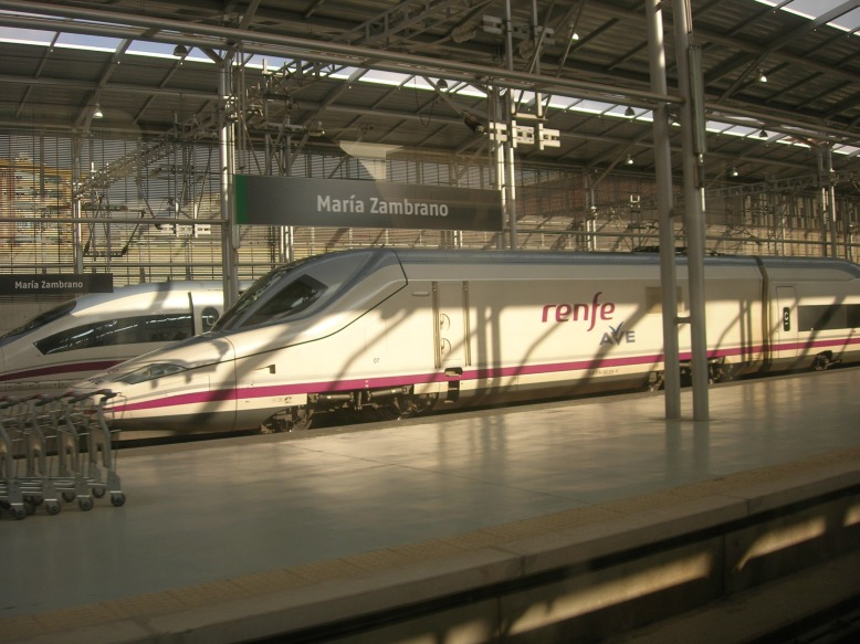 Maria Zambrano train station. Málaga, Spain.